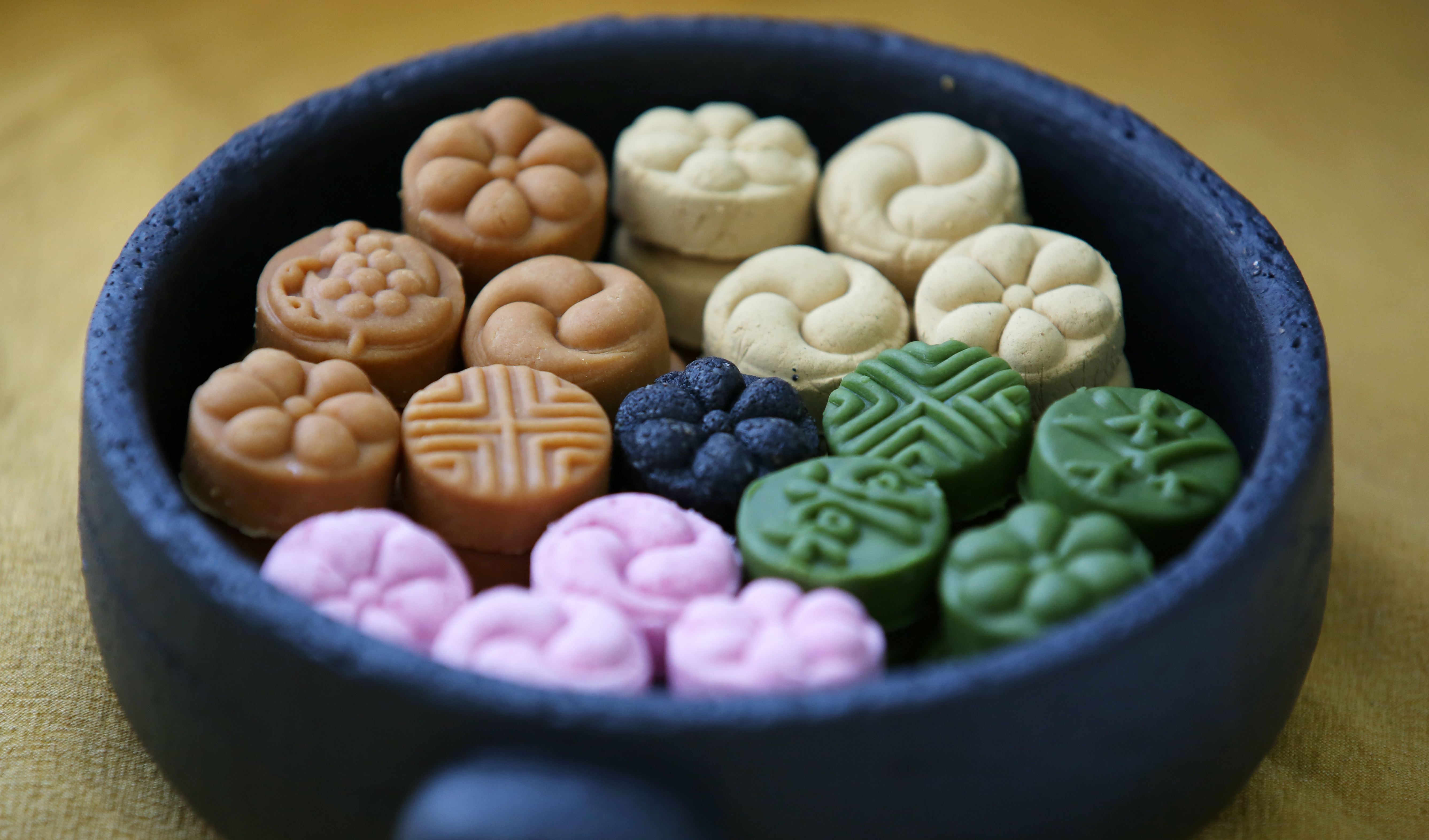 traditional Korean confectionery Dasik